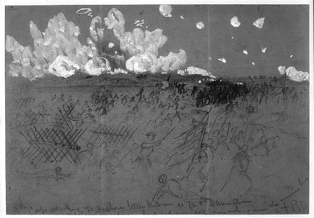 The 9th Corps storming Fort Mahone, outside of Petersburg, Virginia